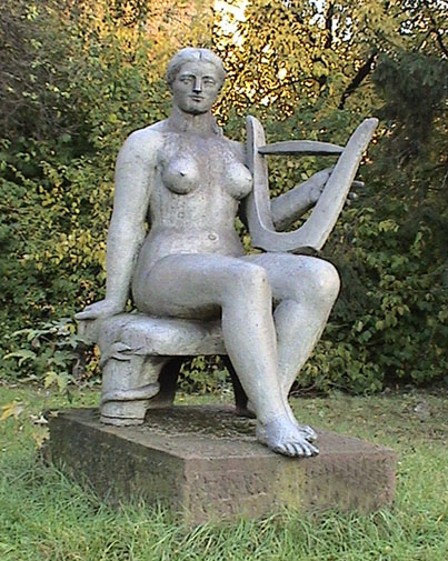 Statue – Ferenc Illés: Epione. Miskolc, Hungary